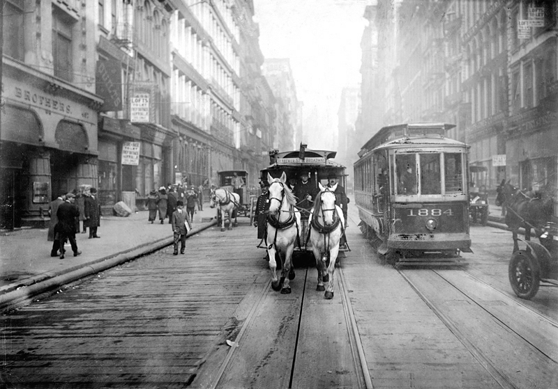 "Just before the last of these vehicles was banished from the streets of New York City, the photographer snapped one of them as it passed alongside a 'Modern Electric Car' powered by the conduit between the rails. This photo was shot on Broadway just north of the intersection with Broome Street. The car is headed southbound." Photo, looking north, shows horse-drawn and electric trams side by side.